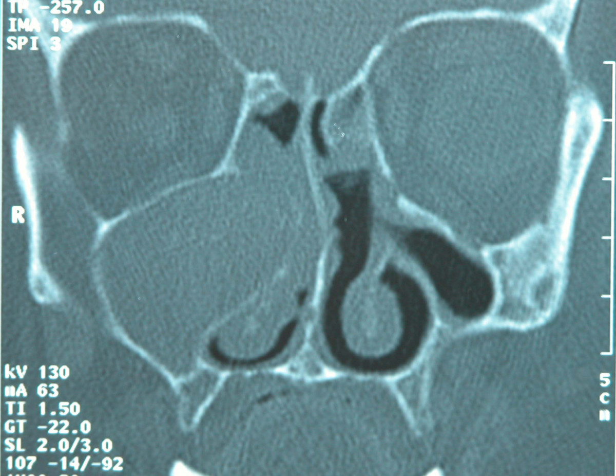 CT scan showing right opacified maxillary sinus with medial bulging causing expansion of the sinus and obstruction of the right nasal cavity.